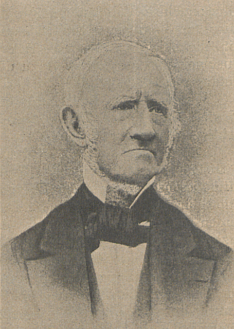 Portrait photograph of Johannes Roeper, German botanist